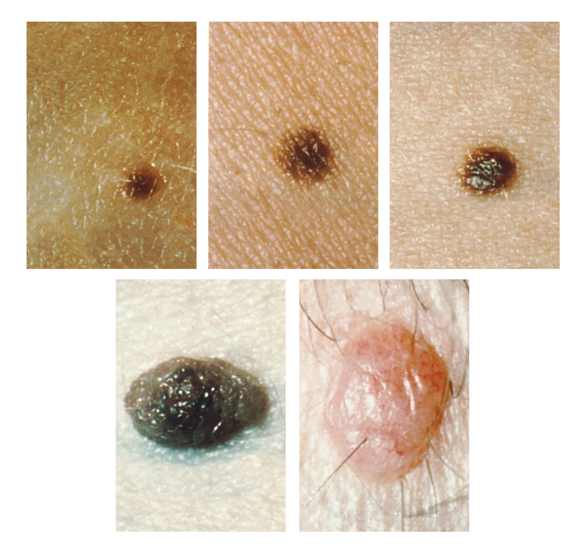 Title Normal Mole Description Natural history of common acquired nevi. Ordinary moles begin as uniformly tan or brown macules, 1 to 2 mm in diameter (a), expand to a larger macule (b), progress to a pigmented papule that may be minimally (c) or obviously (d) elevated above the surface of the skin, and terminate as a pink or flesh-colored papule (e). These lesions are junctional (a,b), compound (c,d), and dermal (e) nevi, respectively. Note their smooth borders and clear demarcation from the surrounding skin. For additional resource, see the following web site: Topics/Categories Anatomy -- Skin Cells or Tissue -- Normal Cells or Tissue Type Color, Photo Source National Cancer Institute